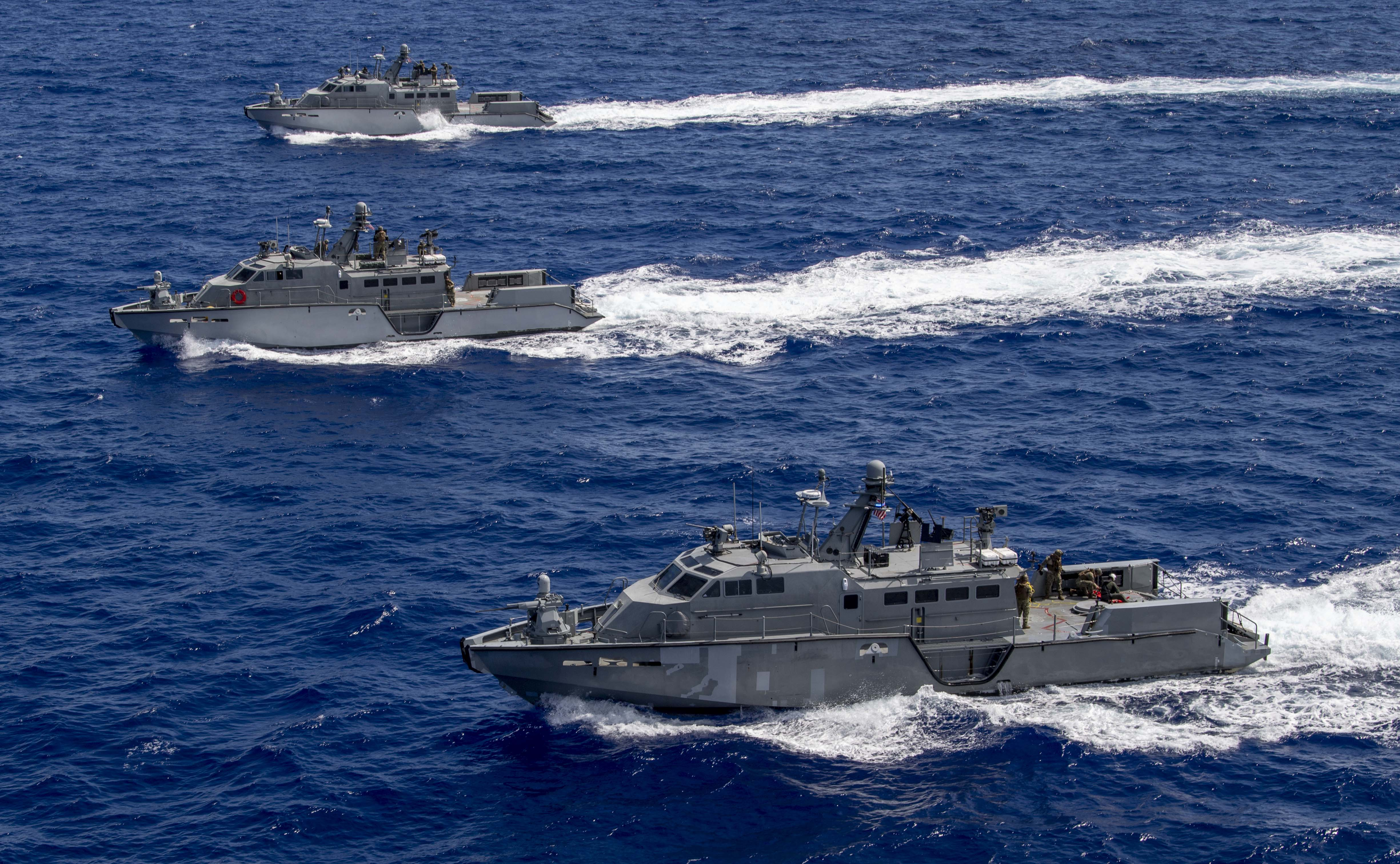 190508-N-RM689-1175 SANTA RITA, Guam (May 8, 2019) Three Mark VI patrol boats attached to Coastal Riverine Squadron (CRS) 2 maneuver in formation during a training evolution near Apra Harbor, Guam. CRS-2, assigned to Coastal Riverine Group 1, Det. Guam, is capable of conducting maritime security operations across the full spectrum of naval, joint and combined operations. Further, it provides additional capabilities of port security, embarked security and theater security cooperation around the U.S. 7th Fleet of operations. (U.S. Navy photo by Mass Communication Specialist 2nd Class Kelsey Adams/Released)